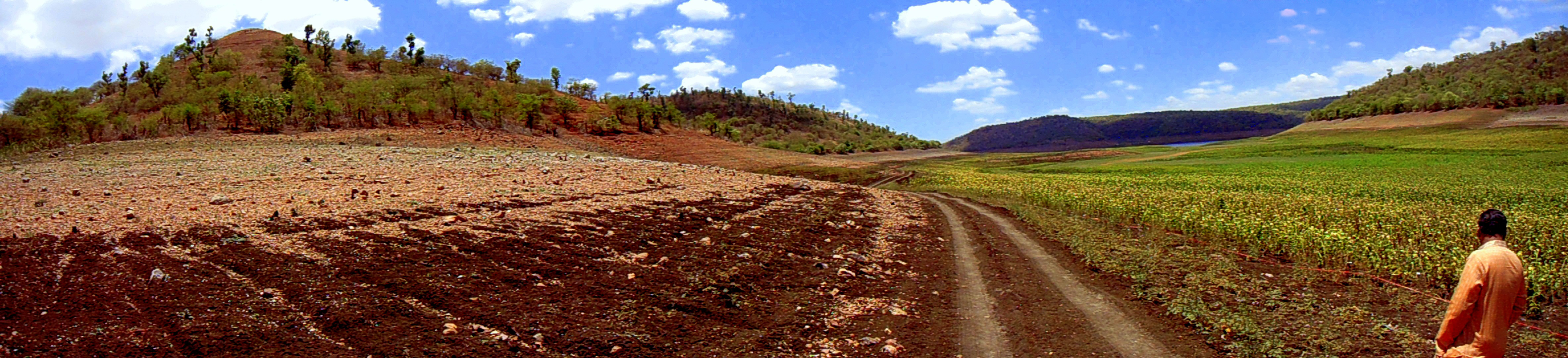 A beautiful village near kollapur